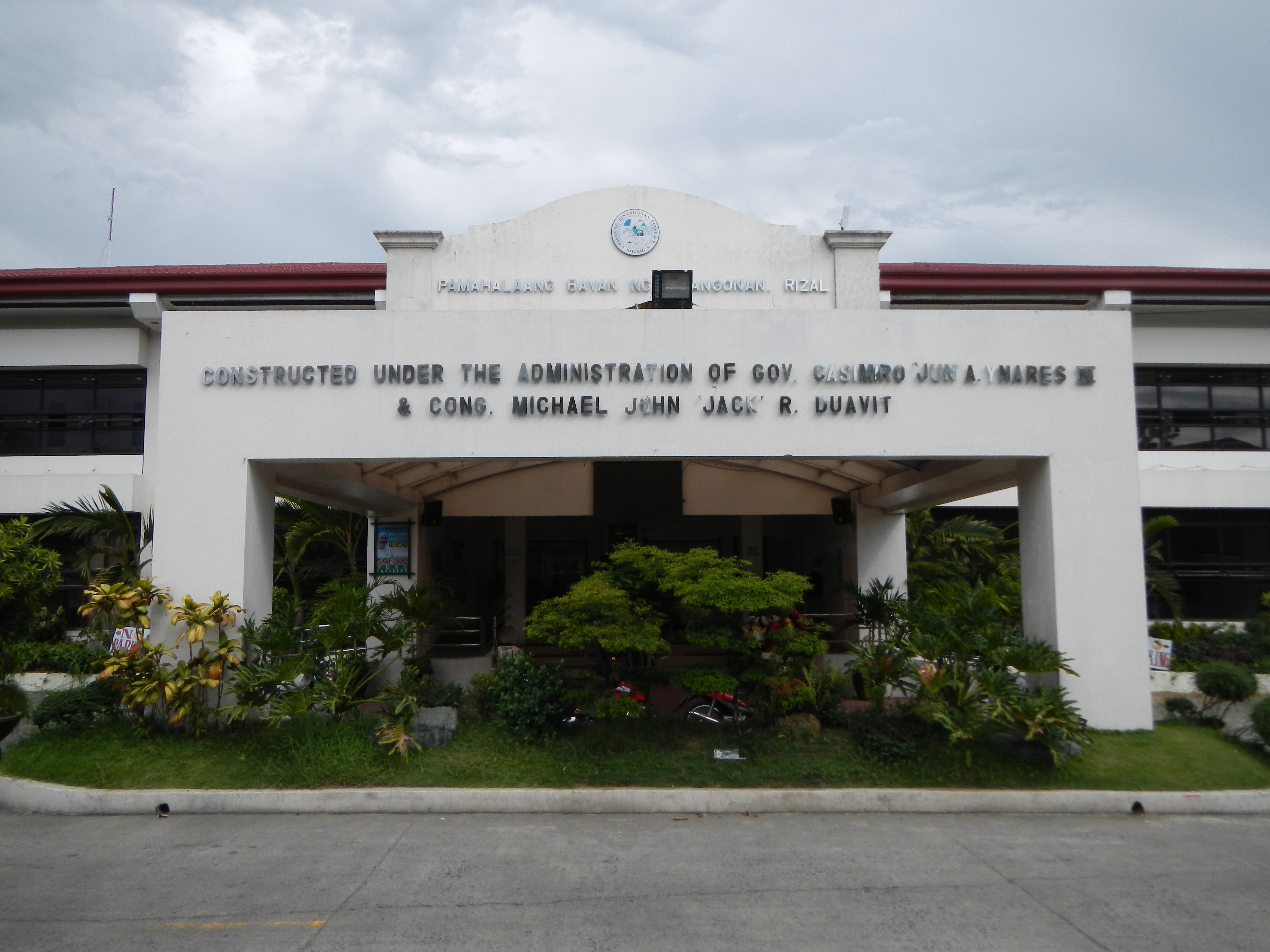 Rare, raw, unedited and original photos of Binangonan Municipal Hall[1] Coordinates: 14°28'54"N 121°11'17"E --- Binangonan, Rizal[2] 1st class municipality and belong to district 1 of Rizal province. Binangonan is politically sub-divided into 40 barangays.Website Coordinates: 14°24'53"N 121°11'57"E [3] 'Pugot', other spirits haunt Binangonan mansion 10/30/2012 Giwang Giwang Festival of Binangonan Rizal ---------[N.B. June 2, Sunday day, 2013 Photography of Angono, Rizal[4], Binangonan, Rizal[5] and Cardona, Rizal[6]: 80% cloudy and 20% sunny weather using my Nikon AW 100 waterproof shockproof camera. From Bulacan at 10:45 a.m., I took photo at 12:25 pm of Goldenhills Jewelry of Antonio Z. Atienza, Jr.[7] in Robinsons Ortigas; and reached Angono, Rizal junction, crossing at 2:06 pm, then took photos of Binangonan Municipal Hall at 2:44 pm; I finished Cardona, Rizal photography at 5:17 p.m., and arrived at Bulacan at 9:30 pm after 3+ hours of travel by bus, and started uploading via slow internet at 9:50 pm - I hereby certify that these rarest, raw, original and unedited photos are exclusive for Commons and Wikipedia never uploaded in any Internet or any site, and for the public domain without any condition.]